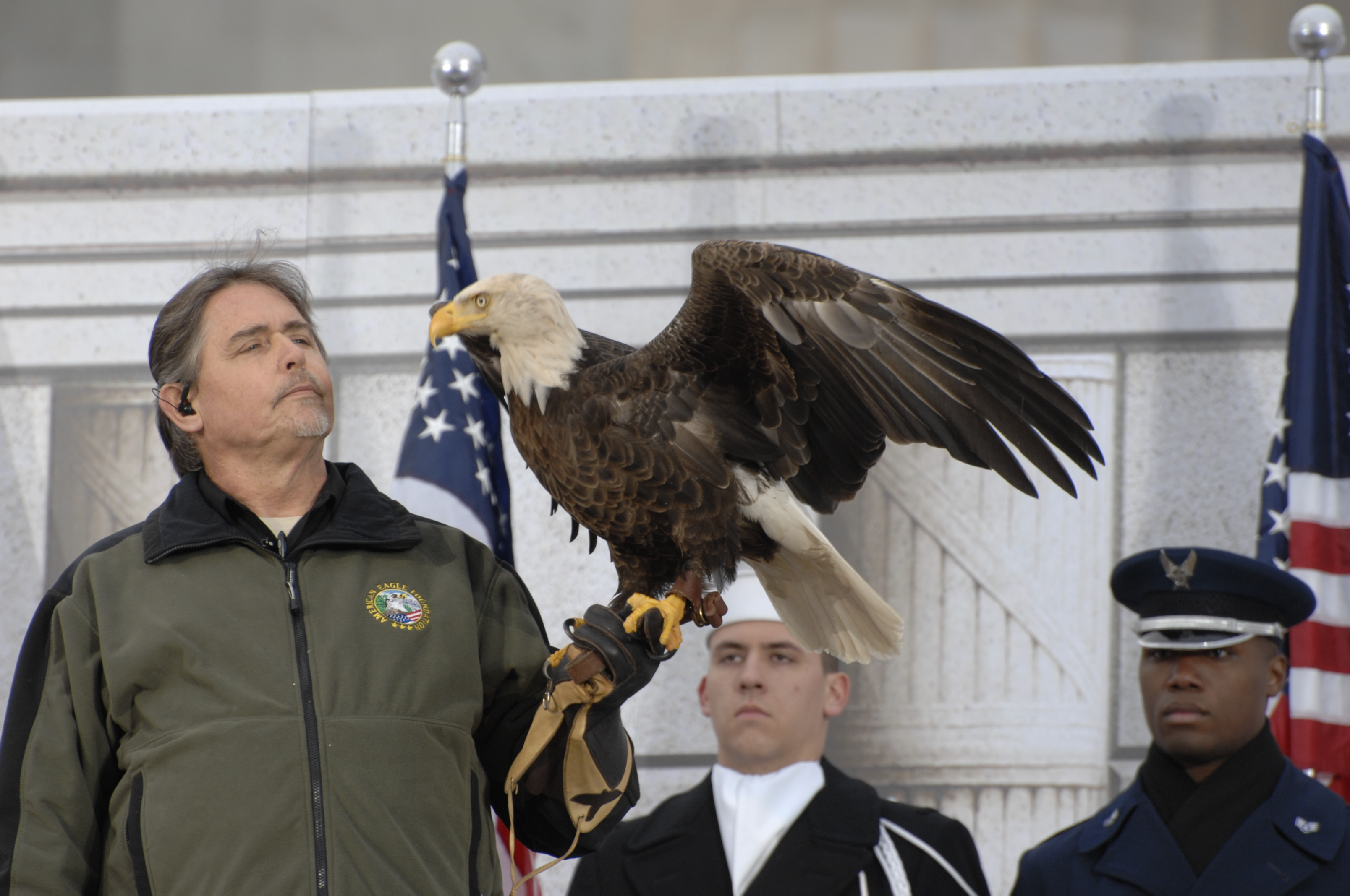 An American Bald Eagle, symbol of the United States, stretches his wings during the inaugural opening ceremonies Jan. 18, 2009 at the Lincoln Memorial.